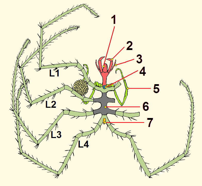 External anatomy of Nymphon sea spider. After G. O. Sars (1895).